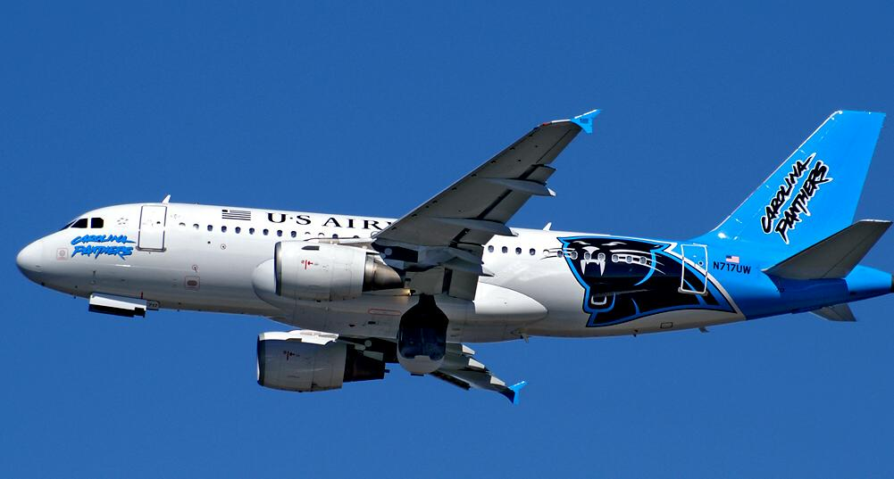 US Airways "Carolina Panthers" Airbus Airbus A319-112 N717UW